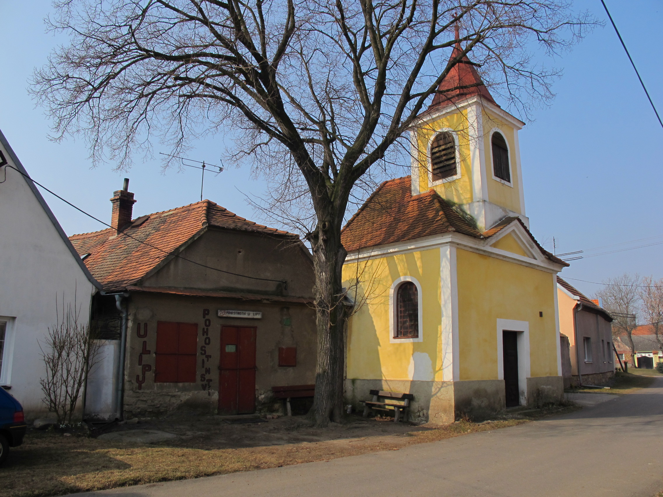 Chapel of Fourteen Holy Helpers in Mradice